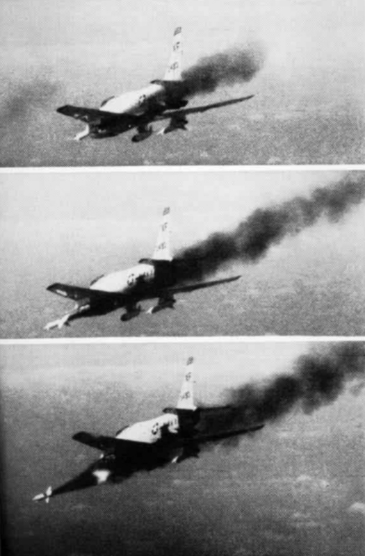 A U.S. Navy North American FJ-4B Fury from Air Development Squadron VX-4 launching an AGM-12 Bullpup missile in 1959.